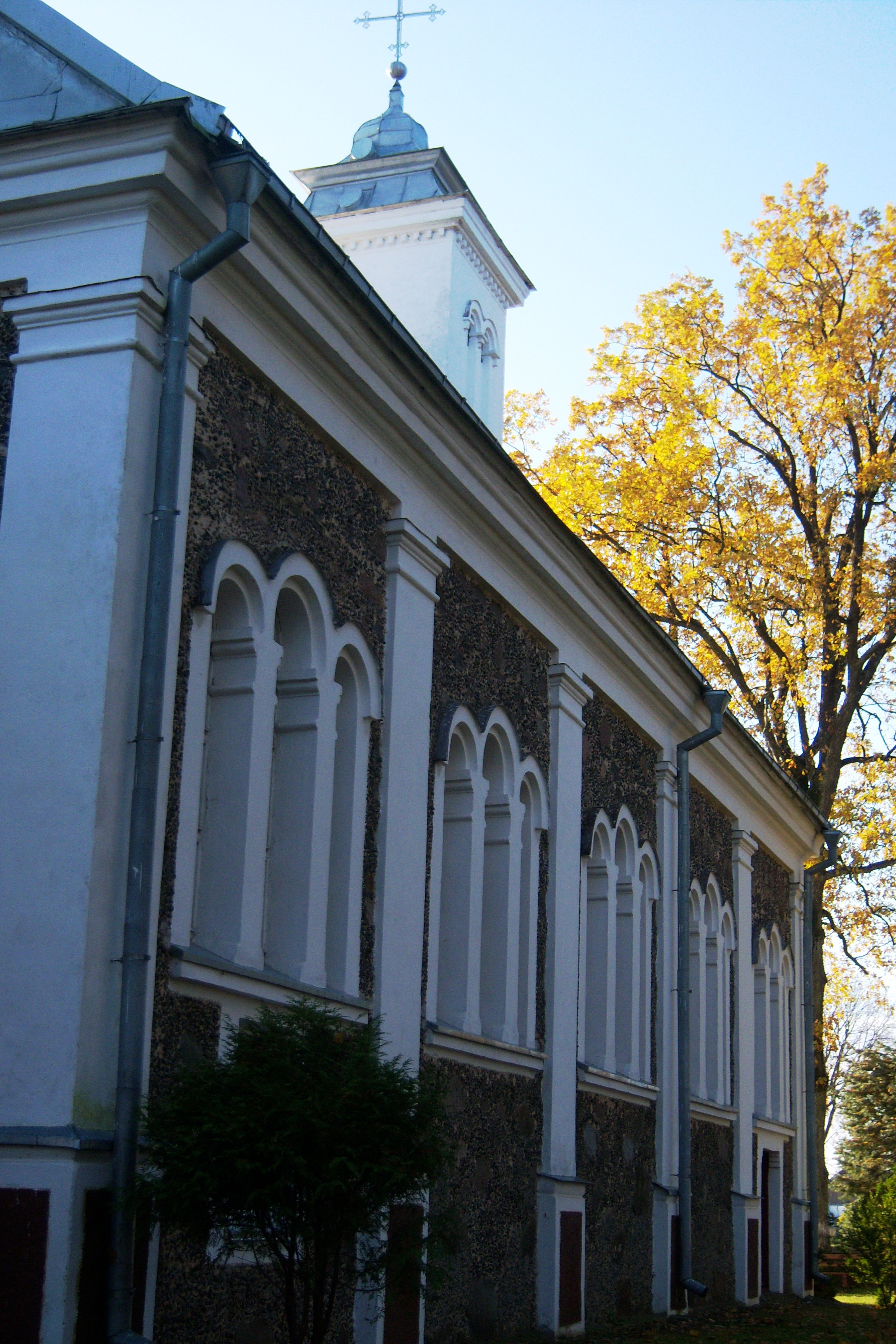 Aleksandrija Church, side view, Skuodas District. Lithuania